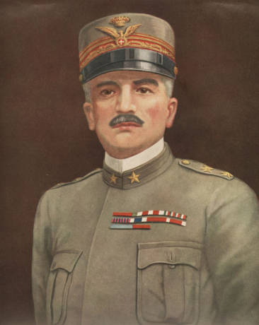 Print of General Armando Diaz in uniform